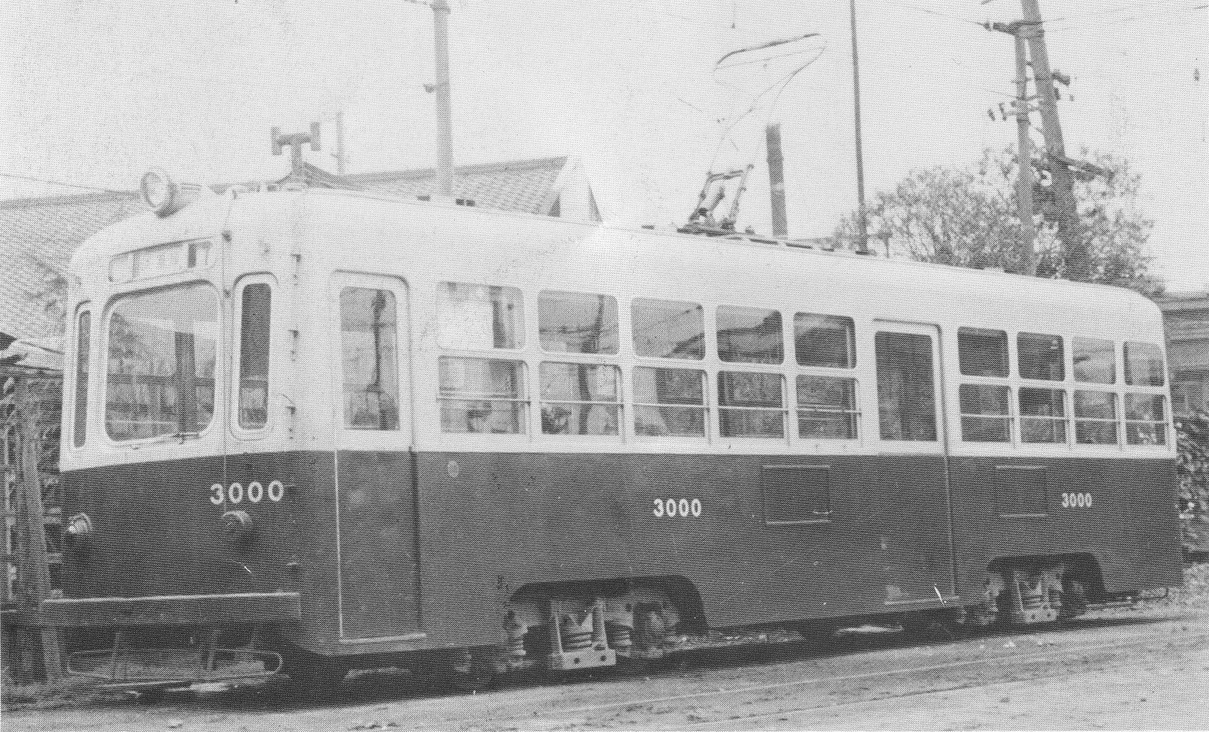 Osaka City Tram 3000.